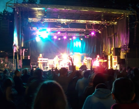 HULLABALUZA Festival #01 France